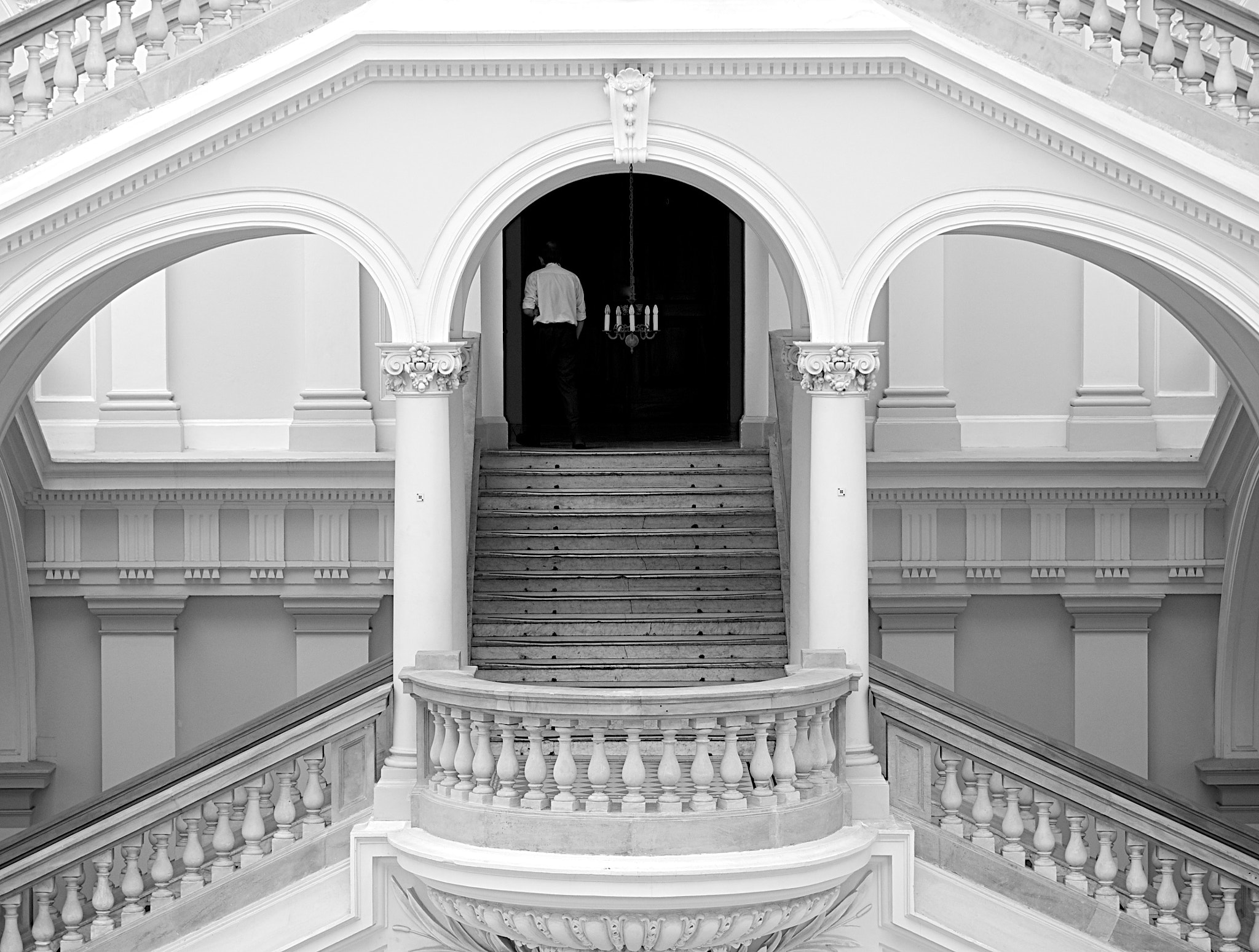 500px provided description: OLYMPUS DIGITAL CAMERA [#city ,#people ,#bw ,#architecture ,#white ,#art ,#black ,#lines ,#sw ,#fine ,#architektur ,#fineart ,#schwarz ,#weiss]